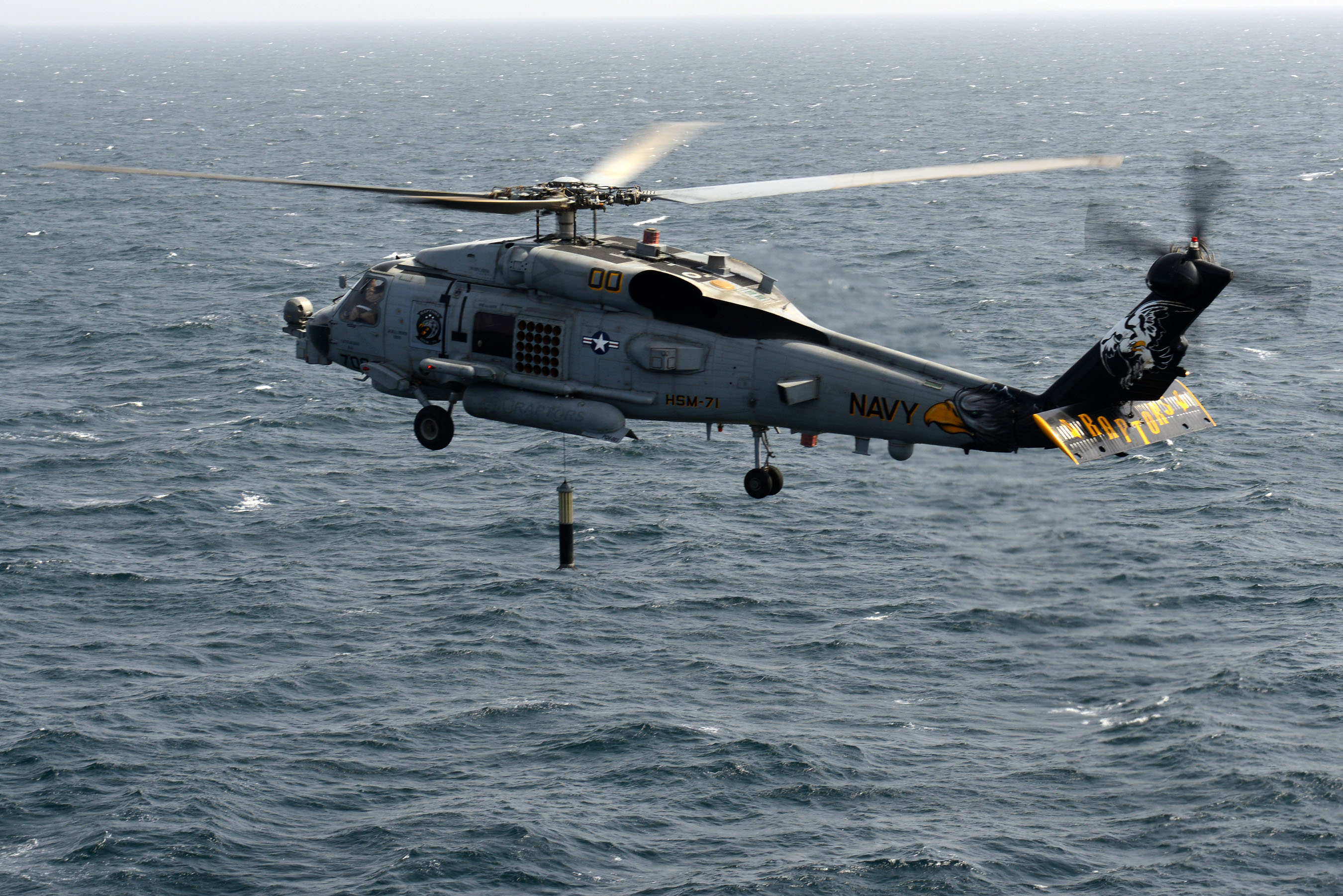 U.S. 5TH FLEET AREA OF RESPONSIBILITY (Feb. 15, 2013) An MH-60R Sea Hawk from the Raptors of Helicopter Maritime Strike Squadron (HSM) 71 assigned to the aircraft carrier USS John C. Stennis (CVN 74) tests lower a dipping sonar. John C. Stennis is deployed to the U.S. 5th Fleet area of responsibility conducting maritime security operations, theater security cooperation efforts and support missions for Operation Enduring Freedom. (U.S. Navy photo by Mass Communication Specialist 2nd Class Kenneth Abbate/Released) 130215-N-OY799-114